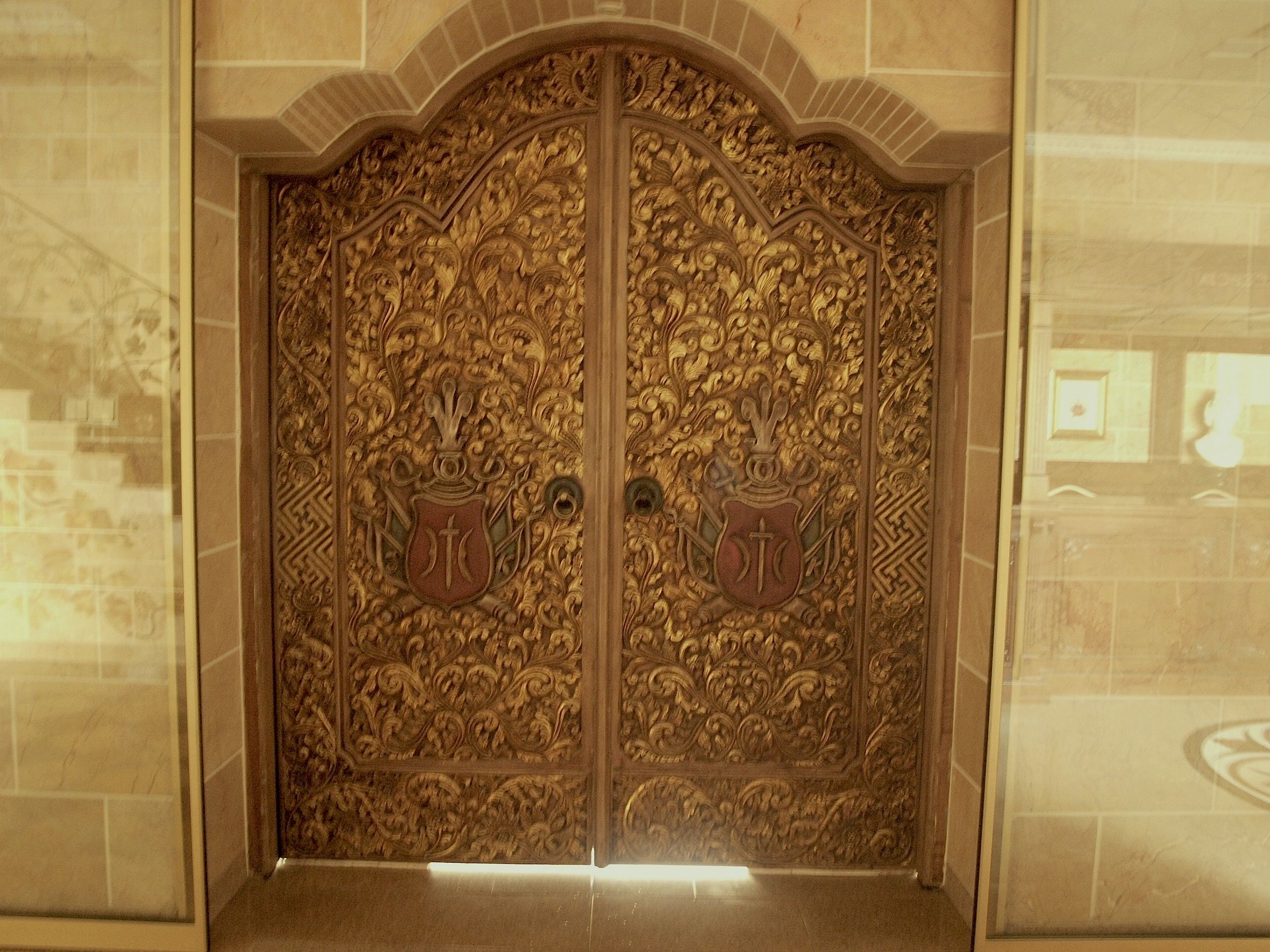 The doors of Ostoya Manor